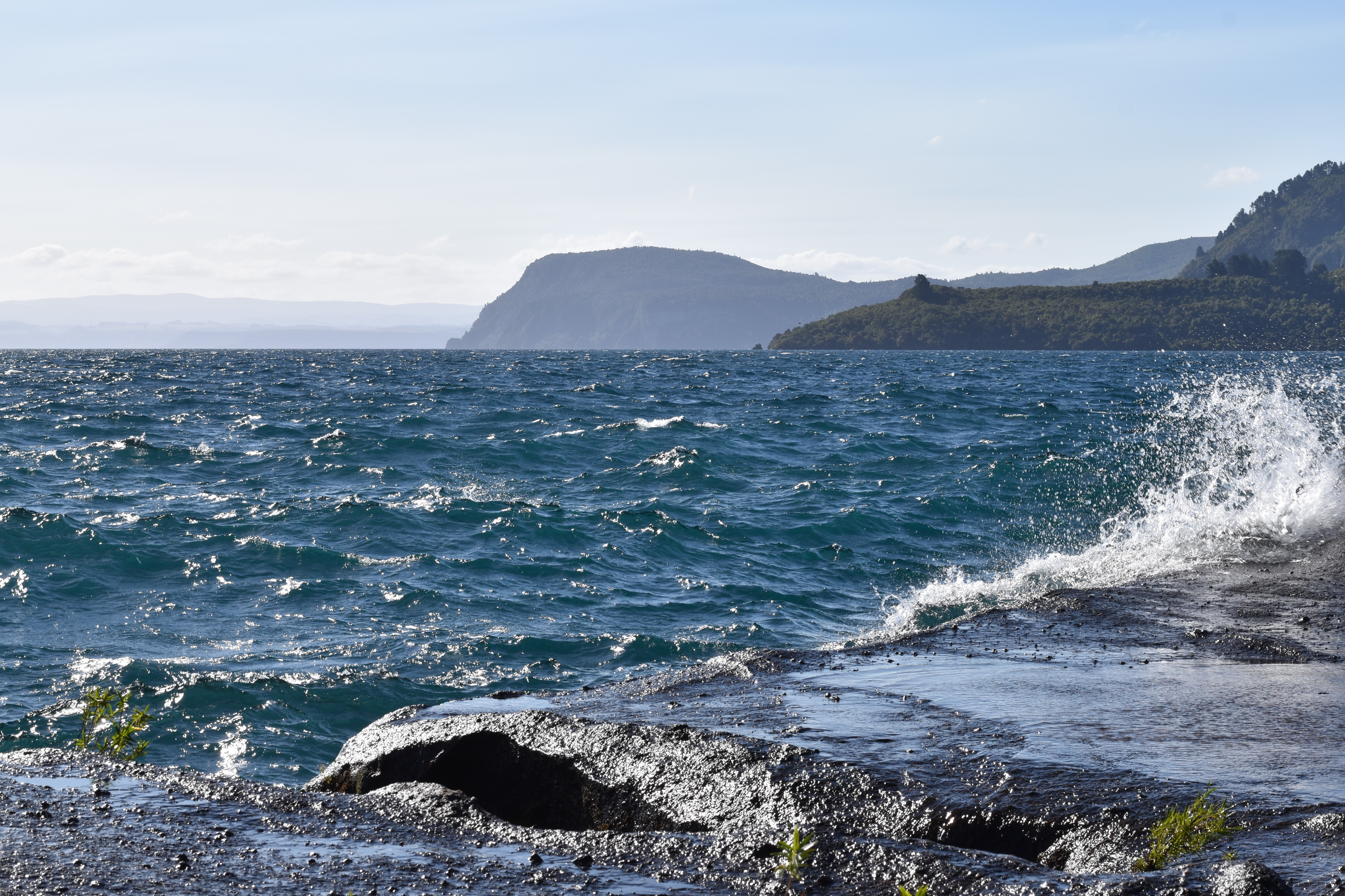 View from Whakamoenga Point, Lake Taupō